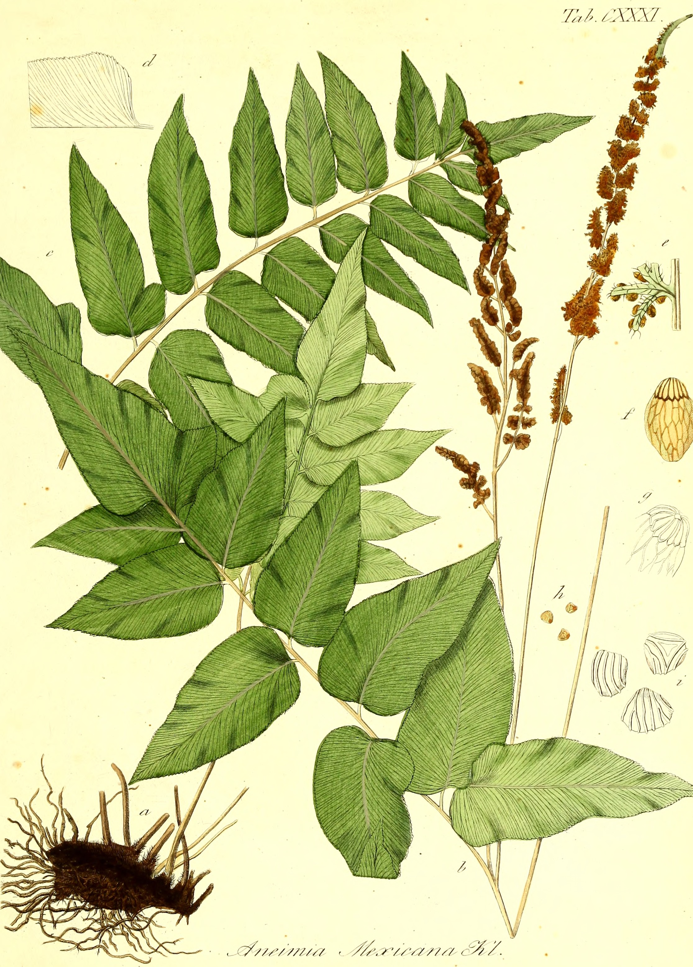 Title: Die Farrnkräuter in kolorirten Abbildungen naturgetreu Erläutert und Beschrieben Year: 1840 (1840s) Authors: Kunze, Gustav, 1793-1851 Subjects: Ferns Publisher: Leipzig, E. Fleischer Text Appearing Before Image: ale, oder halbmondarlige Form und einen lichteren Saum. Durch die reihenweise stehenden und eingesenkten Schleierchen, sowie die dicke Laub-substanz ist D. uncinella von der verwandten D. flexuosa Pr. und allen übrigen Arten der Ab-theilung sogleich zu unterscheiden. Erklärung von Tab, CXMj, a. a. Stück eines fruchtbaren Wedels von Davallia uncinella meiner Sammlung, mit 2 Fiedern, von der Unterseite gesehen. b. b. theilweise steriles Wedelstück, von der Oberseite. a. u. b. natürliche Grösse. c. Fragment eines Spindelchens mit ungewöhnlicher Form der sterilen Blättchen, von beidenSeiten sichtbar, sehr schwach vergrössert. d. fruchtbares dreilappiges Fiederchen, einem Stücke des Spindelchens aufsitzend, von derUnterseite gesehen. c. dasselbe, von der Oberseite; beide massig vergrössert, um Schleierchen und Fruchthaufen, sowie die Aderung, zu zeigen. f. ein geschlossenes Sporangium auf seinem Stiele, von der Seite gesehen. g. drei Sporen. f. u. g. unter starker Vergrösserung Text Appearing After Image: .7///..